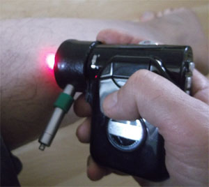 An ILSC scan in progress